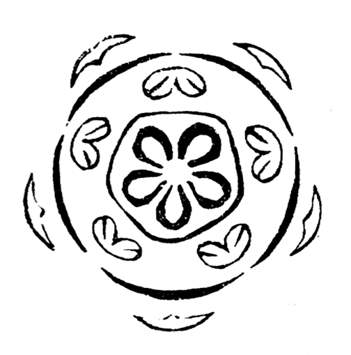 Diagram of a flower of Hedera helix (Araliaceae)